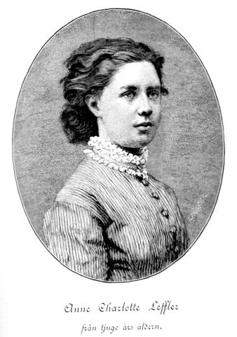 Anne Charlotte Leffler in her 20s